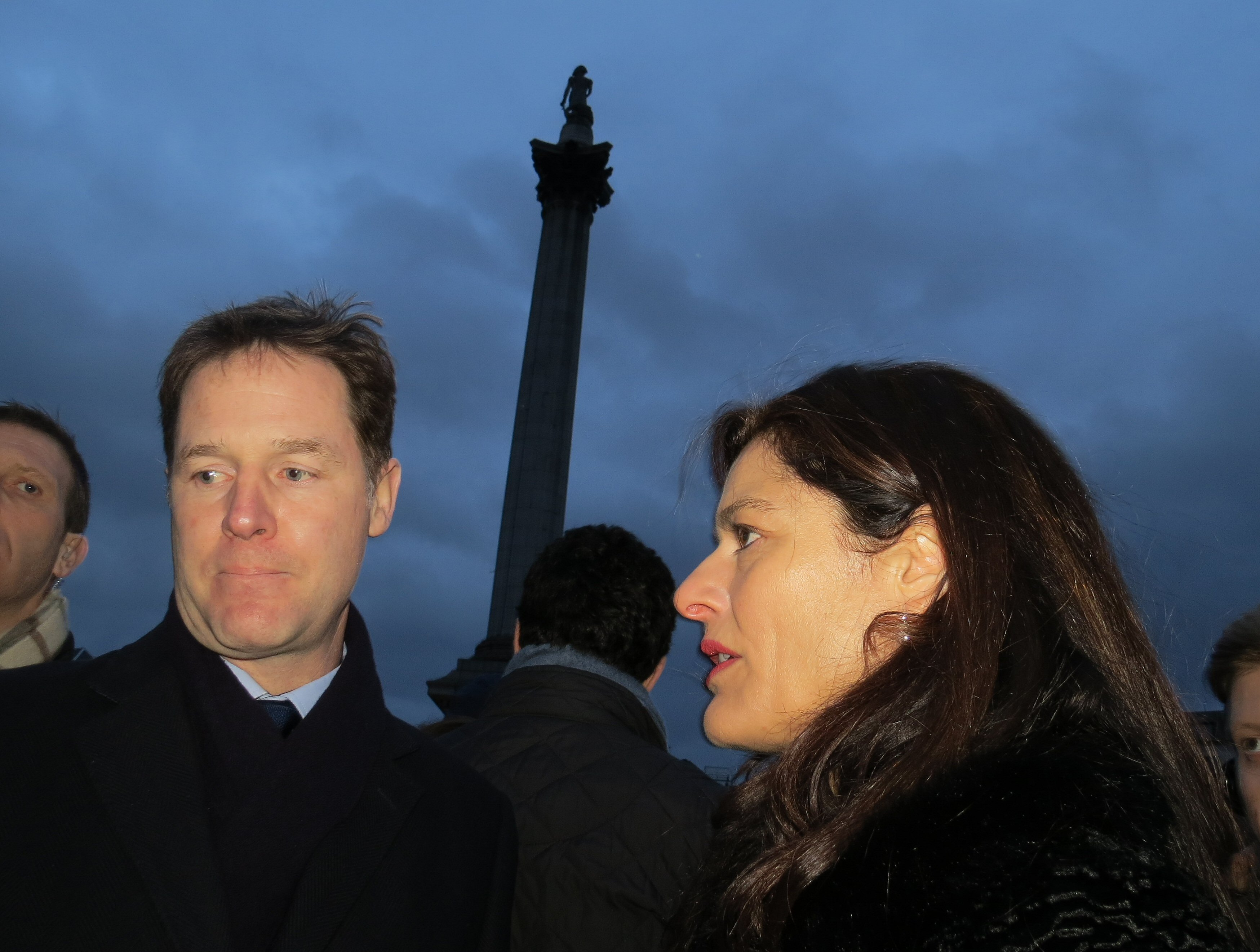 Nick Clegg attends the Je Suis Charlie rally with his wife Miriam González Durántez in Trafalgar Square, January 2015